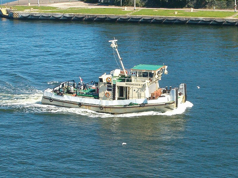 Towboat 'Nosorozec-02' in Gdansk, Poland.